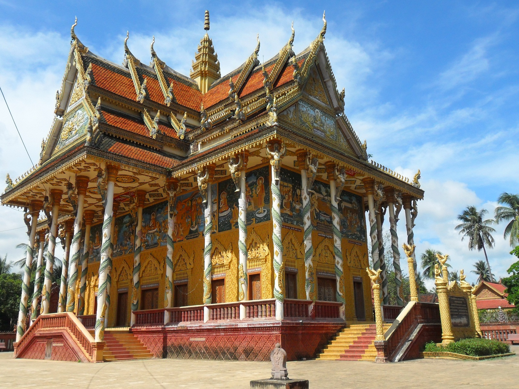 Buddhist temple, Wat Kor (?), Battambang, Cambodia